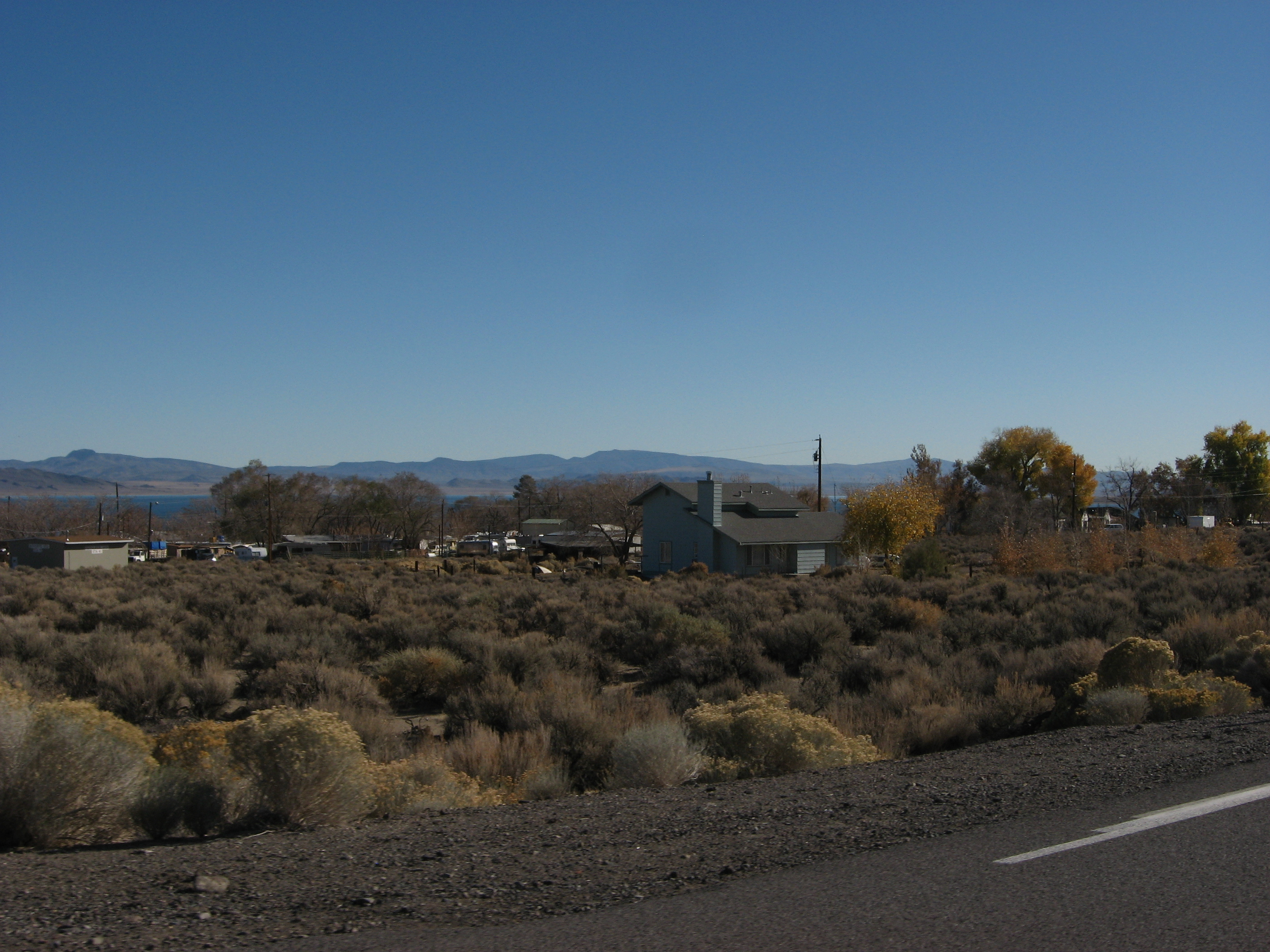 Sutcliffe is a census-designated place (CDP) in Washoe County, Nevada, United States. The population was 281 at the 2000 census. It is part of the Reno?Sparks Metropolitan Statistical Area.